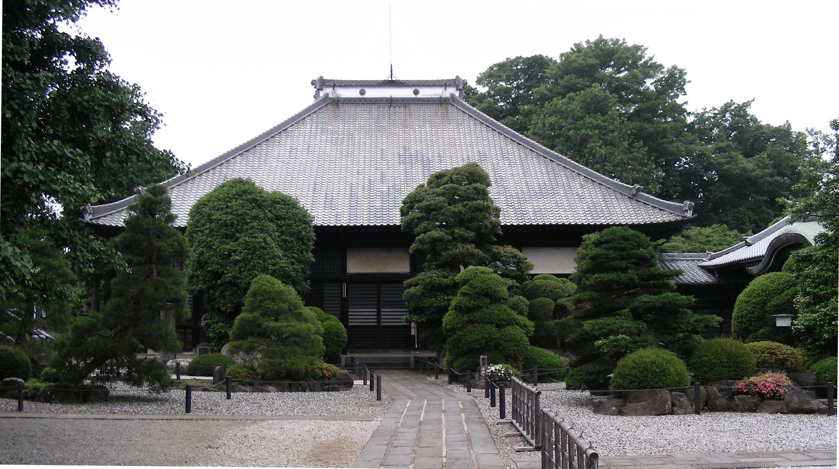 The Yojuin temple in Kawagoe City, Saitama Prefecture, Japan